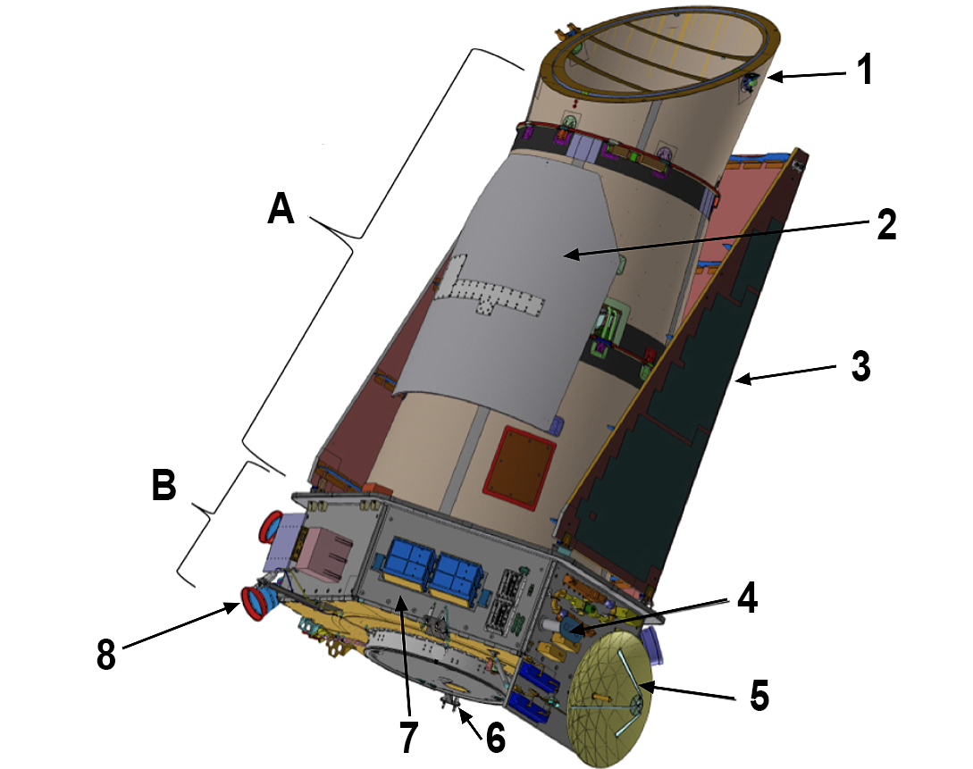 Diagram Space telescope Kepler of NASA showing integrated Photometer and Spacecraft